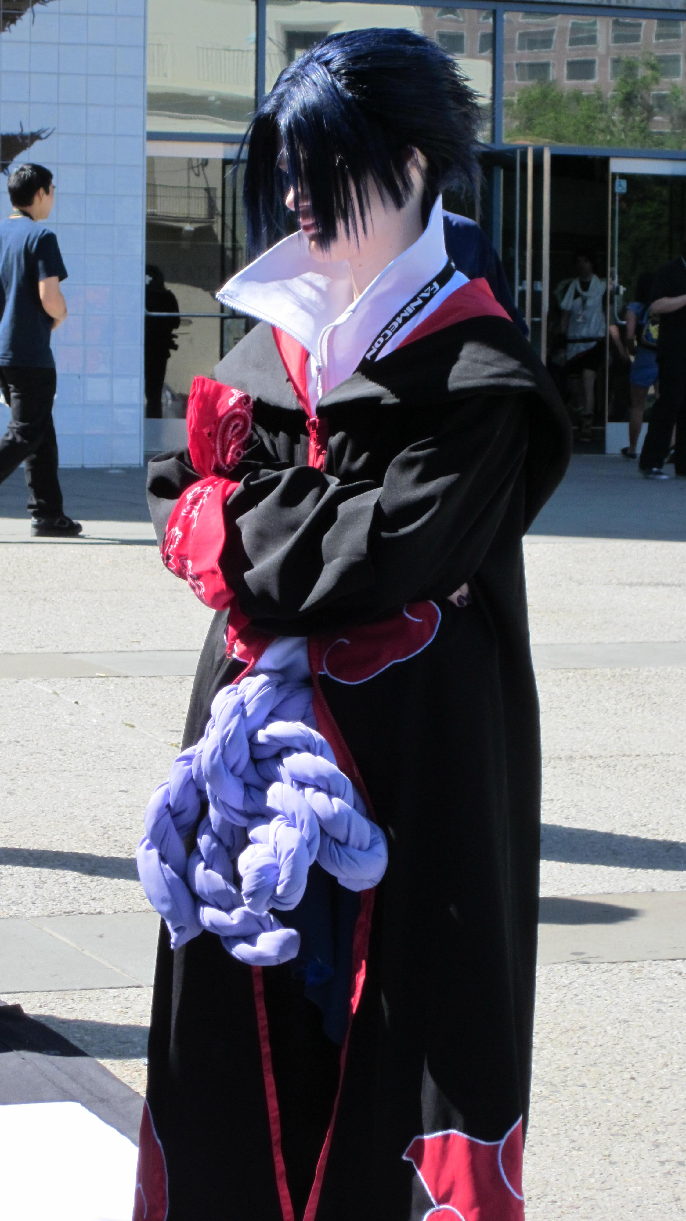 A cosplayer portraying Sasuke Uchiha from Naruto at FanimeCon 2010 in San Jose, California.